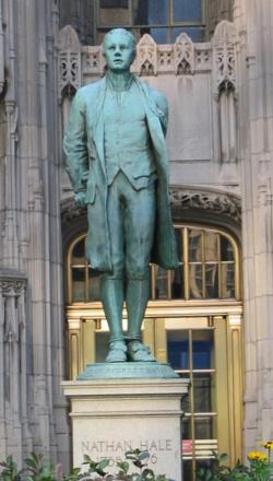 Figure from Nathan Hale statue outside the Chicago Tribune Tower in Chicago, Illinois (file: fast/resizing JPEG format)